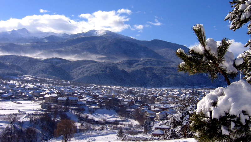 Земен изглед на Добринище